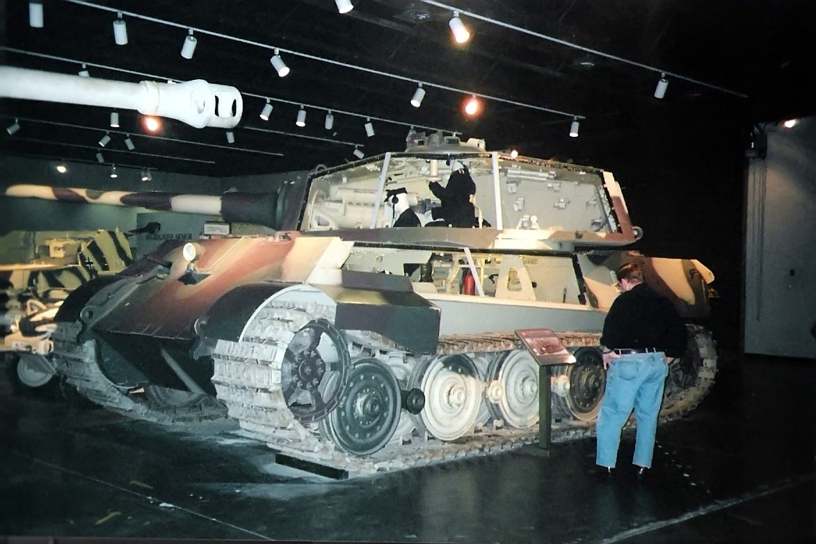 Photograph of sectioned German Tiger II tank, at the Patton Army Museum.